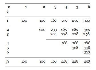 wagner-whitin